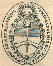 Coat of Arms of the Assembly of the Year XIII, the first seal used in current Argentina.